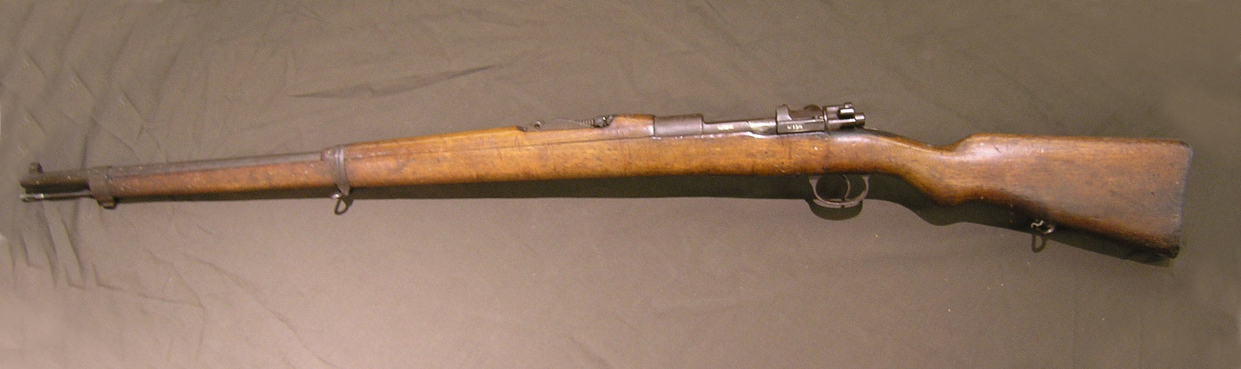 Turkish Mauser Model 1893 bolt action rifle Collection of Col. AM Samuel, who served in South Africa with the 9th NZMR and during WW1 with the Wellington Mounted Rifles. Turkish Mauser Model 1893 bolt action rifle (GEW 98); bolt action rifle; 7.65 mm calibre; borer in woodwork markings- on forward end of receiver- 1Σ9Vo; Turkish script on magazine floor plate- (Turkish emblem) - V0 trigger plate magazine plate forward area- (crescent moon) - 1 - Σ9V0 on cleaning rod- M